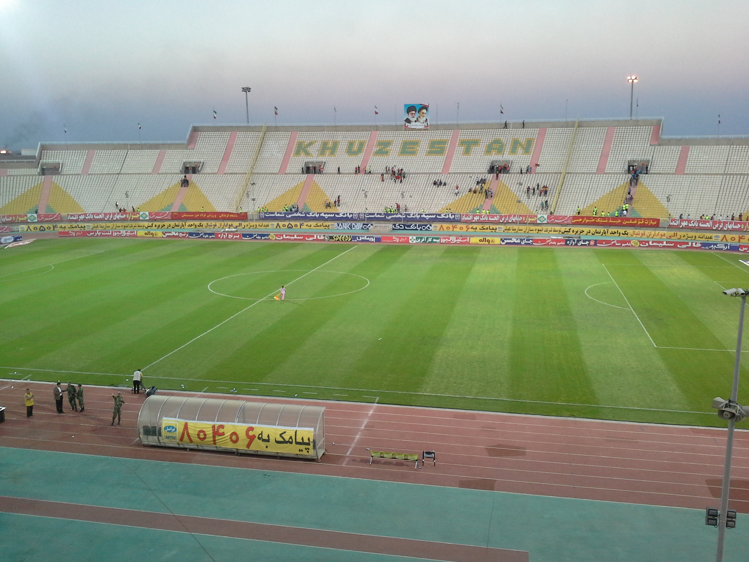 Ghadir Stadium in Ahwaz